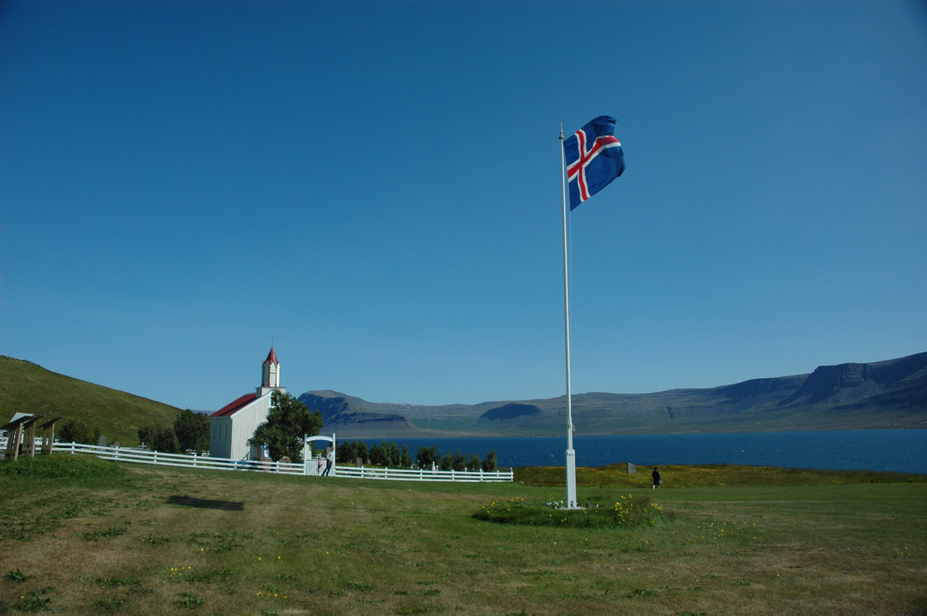 Hrafnseyri farm at Arnarfjörður in Iceland